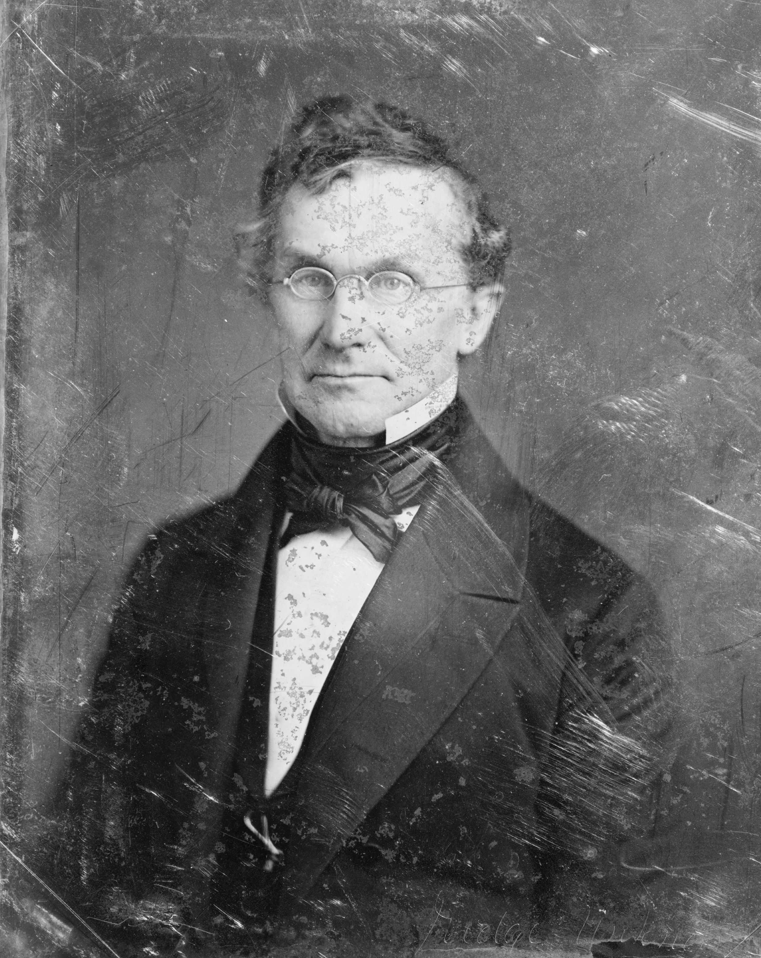 William Adams (1807-1880), noted minister and college president